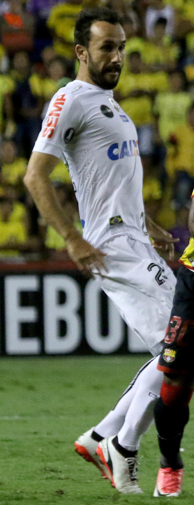 Guayaquil, 13 de septiembre del 2017 (Andes).-En el estadio Monumental Barcelona de Ecuador enfrenta al Santos de Brasil en partido de ida por cuartos de final de la Copa LibertadoresFoto:Andes/César Muñoz